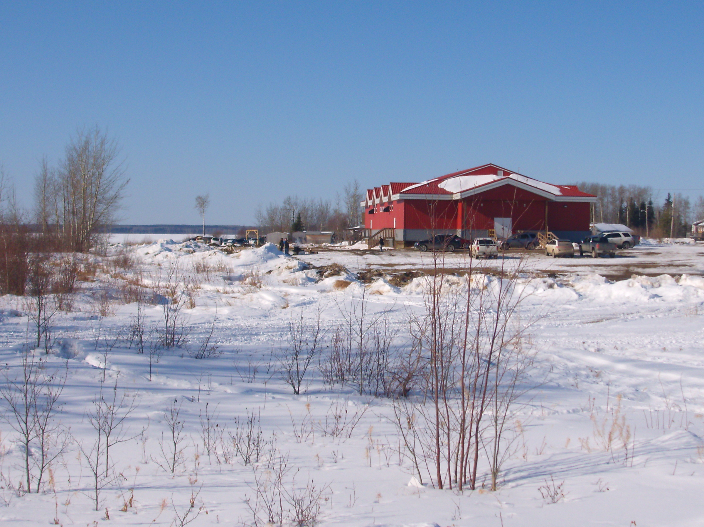 Clearwater River Dene Nation (C.R.D.N.) community hall on the shore of Lac La Loche in Saskatchewan on March 18, 2018.